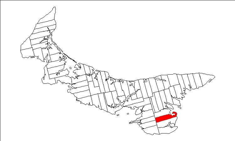 Public domain map of Prince Edward Island created by User:Plasma east with data courtesy of Geogratis, modified to show townships. Released under GFDL (self).